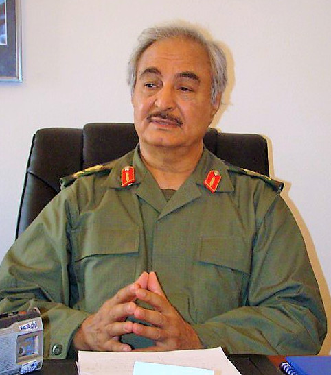 General Khalefa Haftar